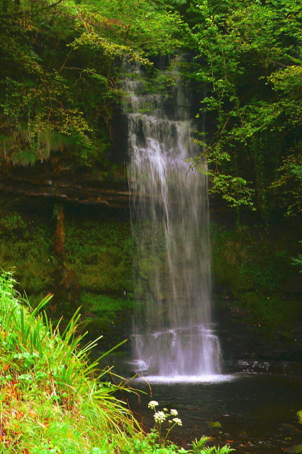 Waterfall at Lough Clencar Waterfall is at the east end of the coastal road along the north shore of Lough Glencar. There is a car park there. The waterfall is accessible via a walkway on the north side of the coastal road.